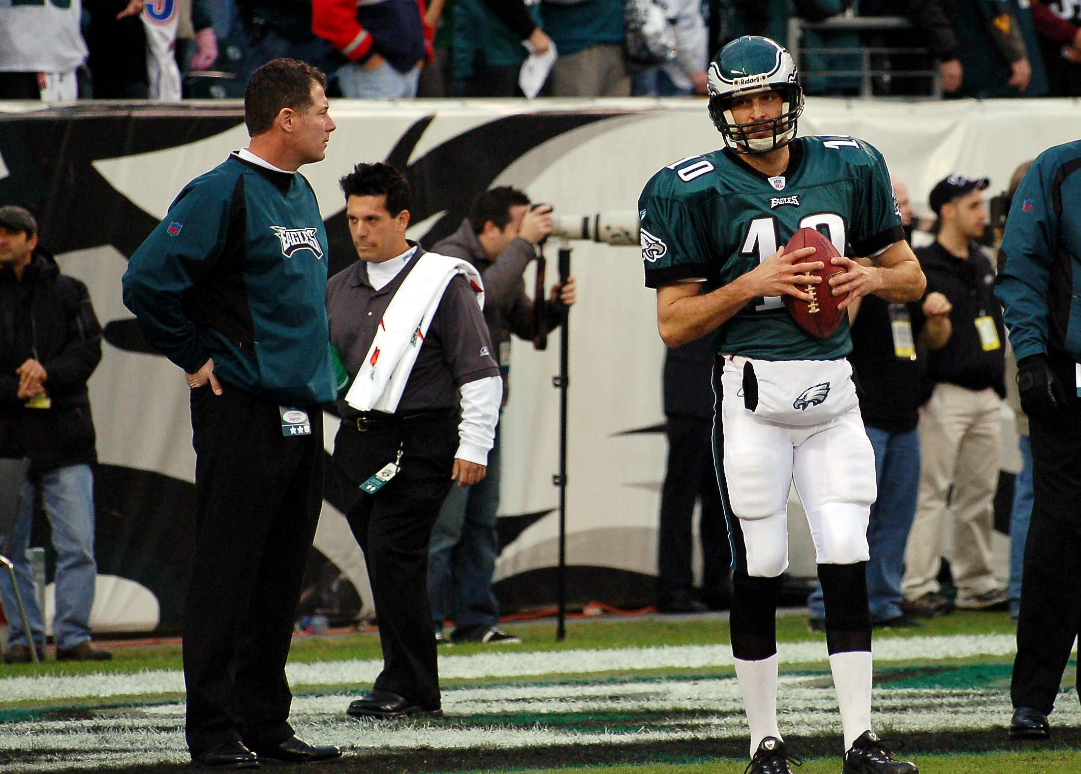 Philadelphia Eagles quarterbacks coach Pat Shumur (left) and backup quarterback Koy Detmer (right) talk with each other before the team's NFC Wild Card playoff game vs. the New York Giants on January 7, 2007.